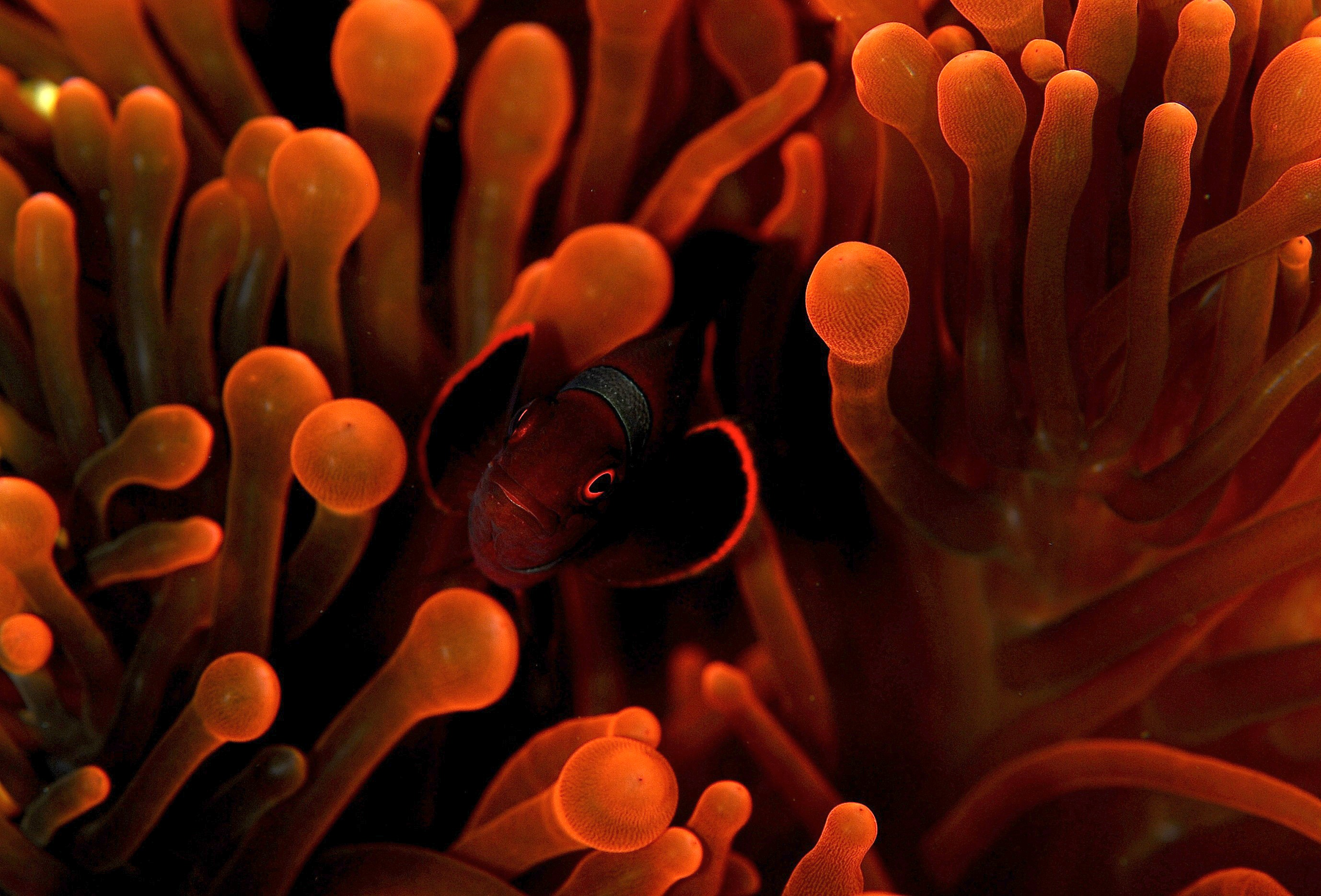 'Where is the fish?' On Black